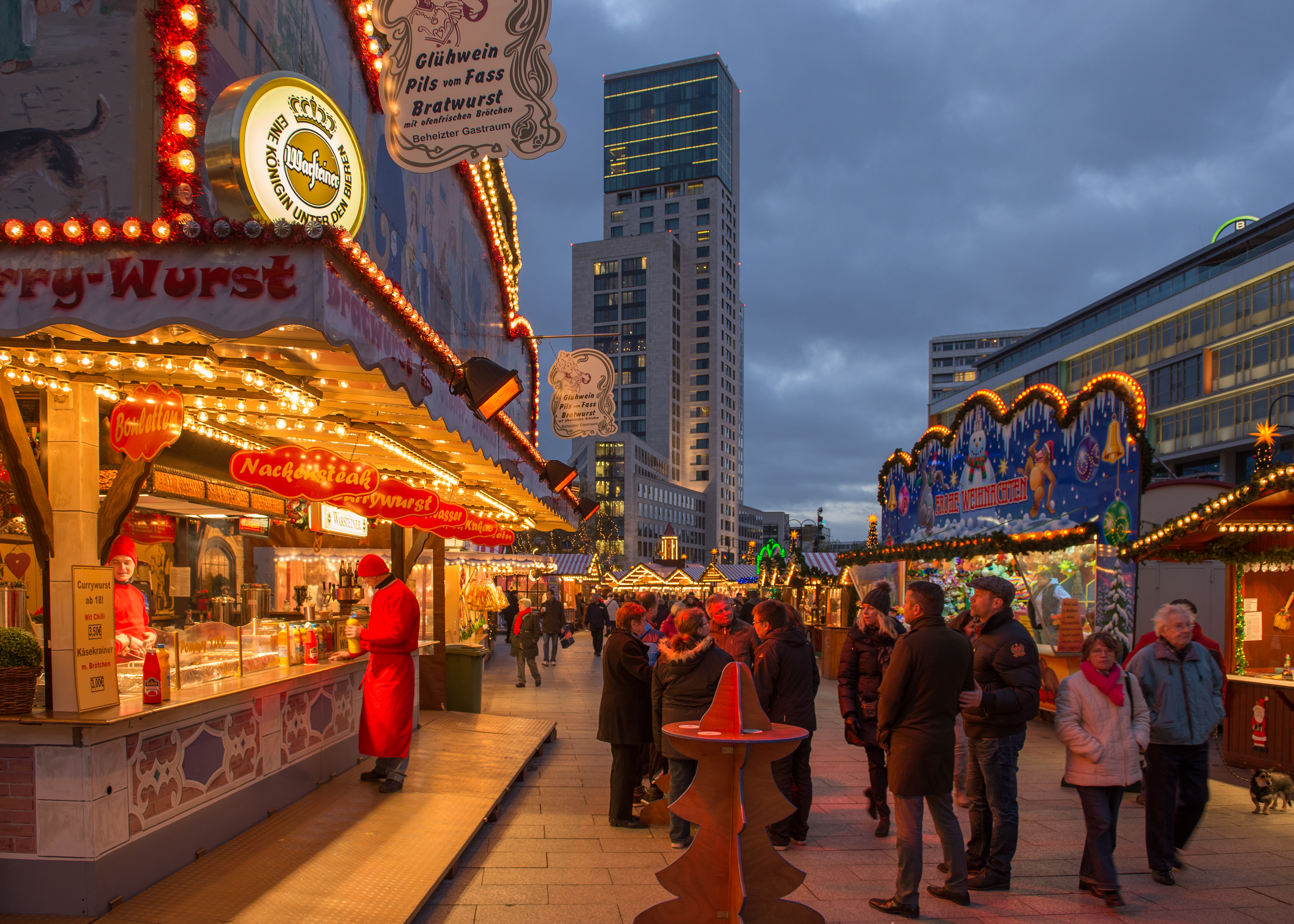 Christmas market at Breitscheidplatz, Berlin.